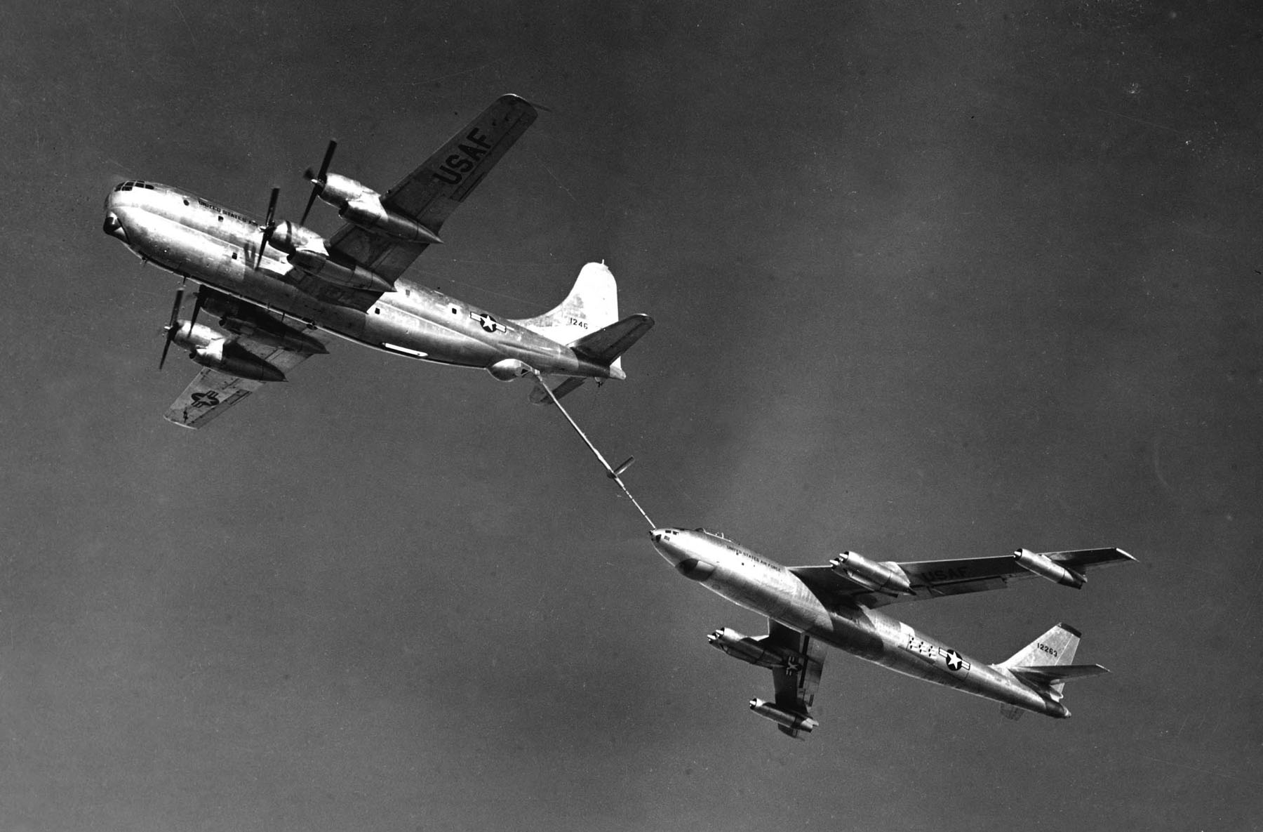 A U.S. Air Force Boeing KC-97F-50-BO Stratofreighter (s/n 51-246) refueling the Boeing B-47B-45-BW Stratojet (s/n 51-2263) in the 1950s. The KC-97F was retired to the MASDC on 6 April 1964. Original caption: "Boeing RB-47 refueled by Boeing KC-97. (U.S. Air Force photo)."